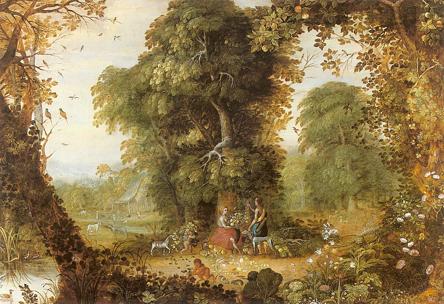 Allegory of Abundance